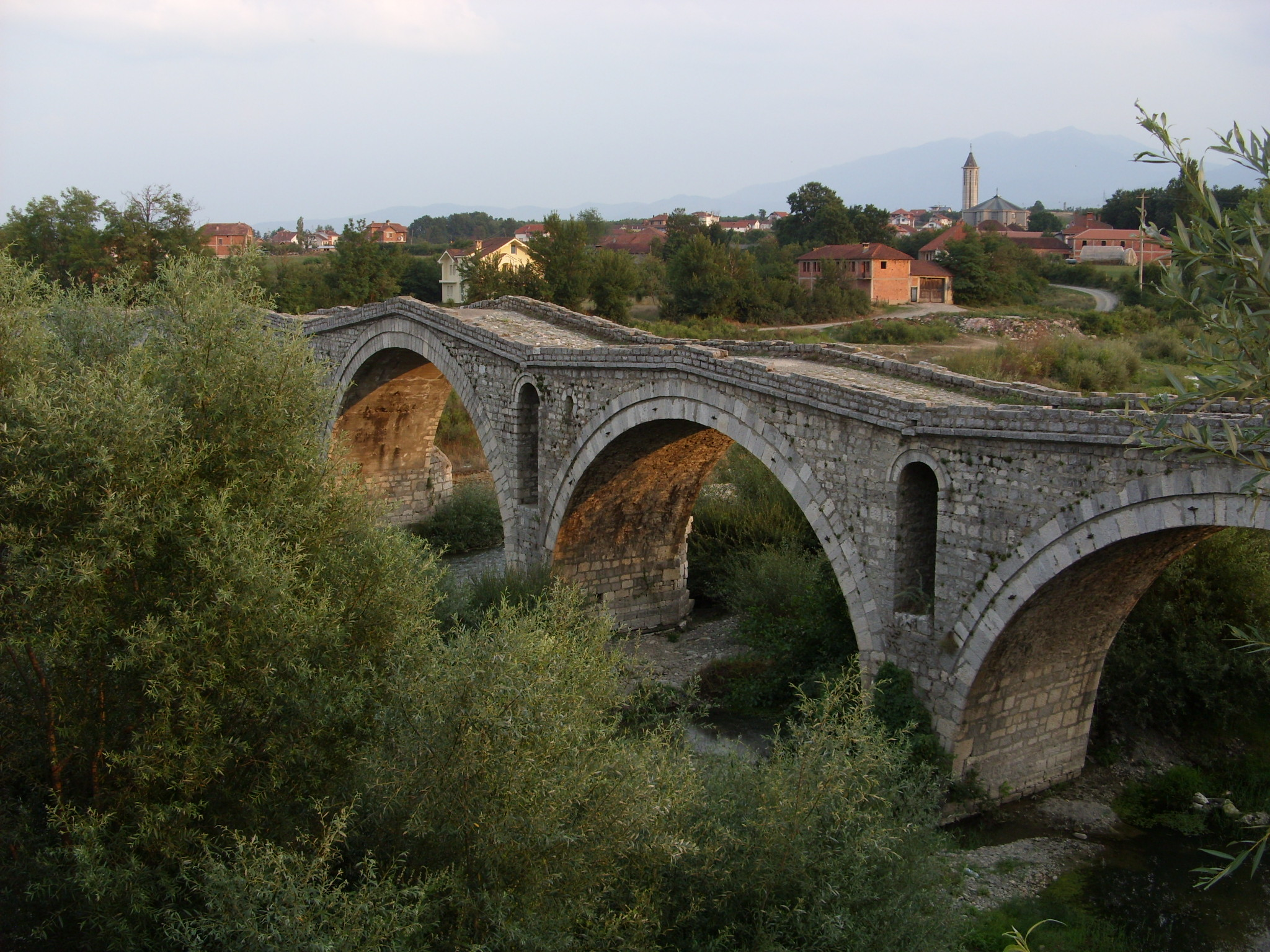 Terzijski Bridge on Erenik River near Đakovica, Kosovo.